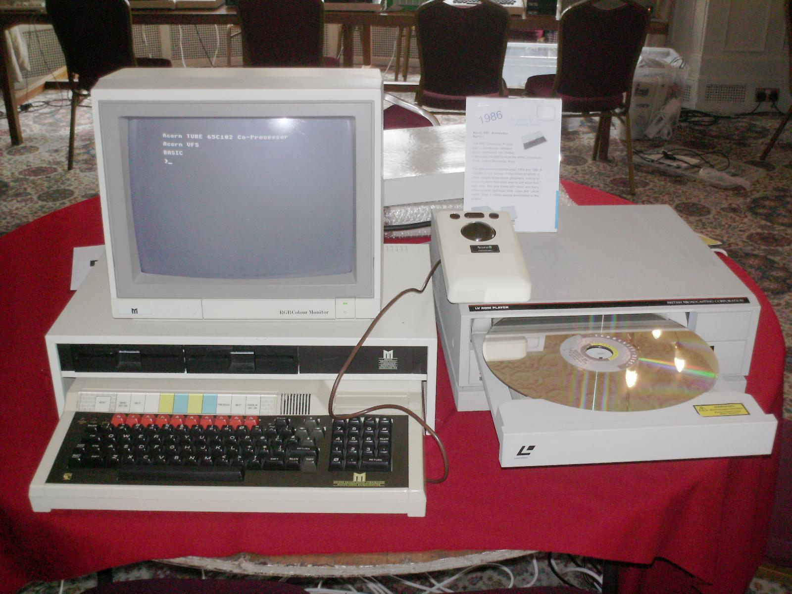 A Domesday system at the Vintage Computer Festival 2010, Bletchley, UK